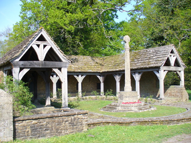 Blackmoor War Memorial Beside the parish church, the village war memorial has a very unusual setting. It is backed by a three-sided cloister with engraved stone slabs on the cloister walls. The cloister is roofed with stone slabs, maybe "Horsham slabs".